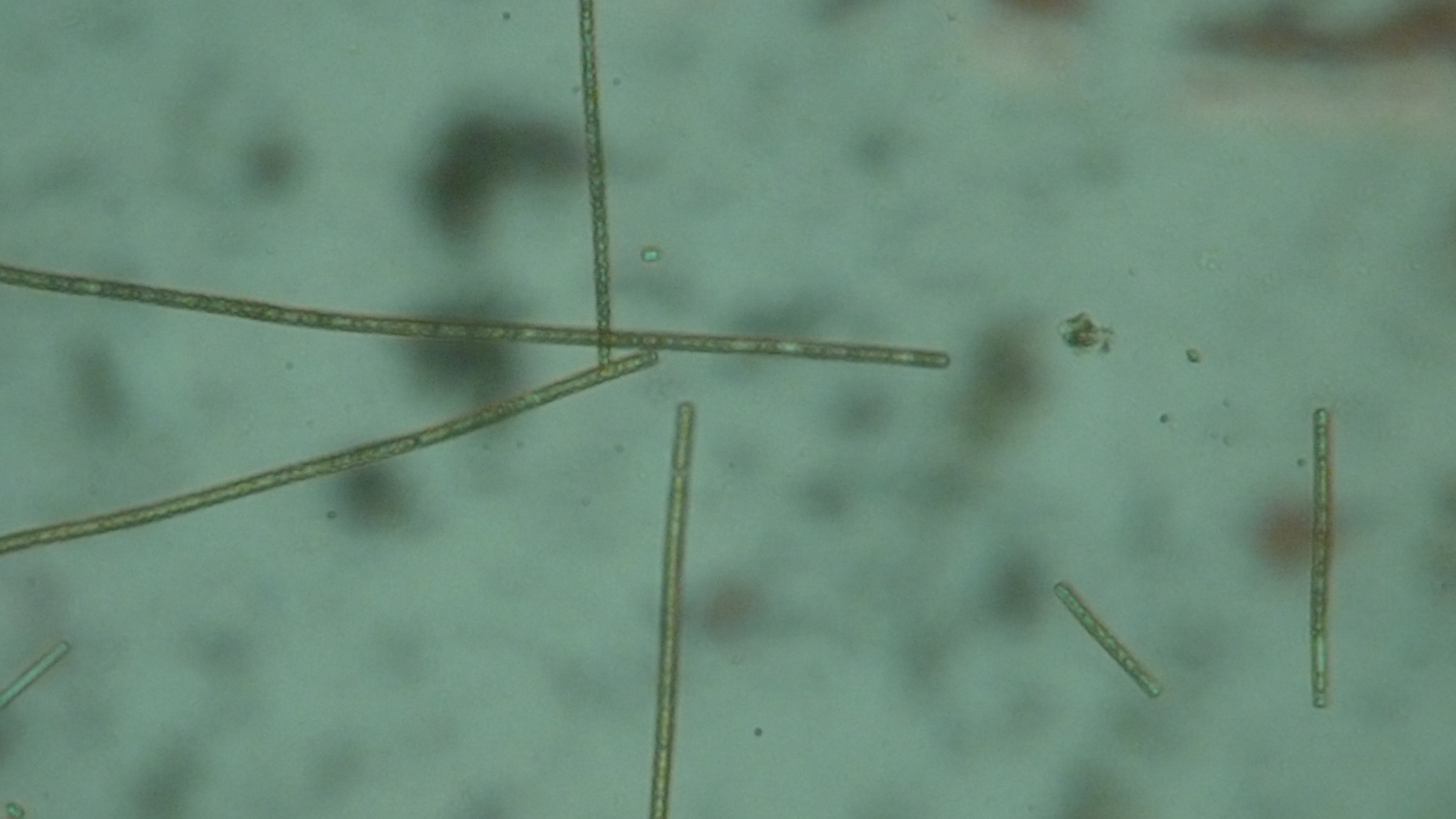 image of the Planktothrix rubescens taken under an inverted microscope with 40 x magnification